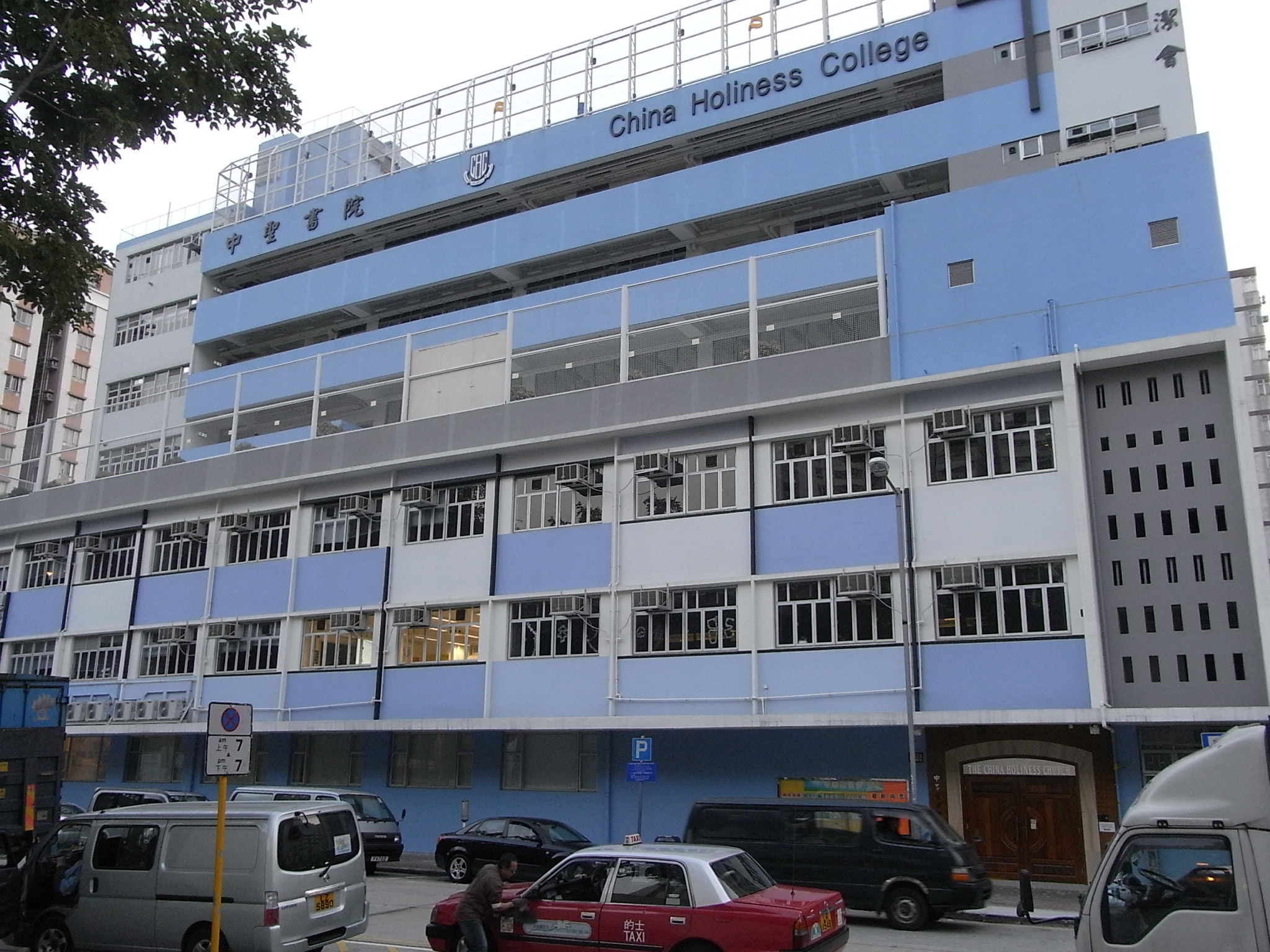 深水埗 懷惠道 中聖書院